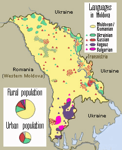 Languages in Moldova (map since another one, from the Science Academy of Moldova, Pr. Anatol Eremia)